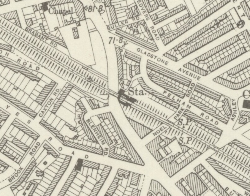 Noel Park and Wood Green railway station in north London on a 1920 Ordnance Survey map.